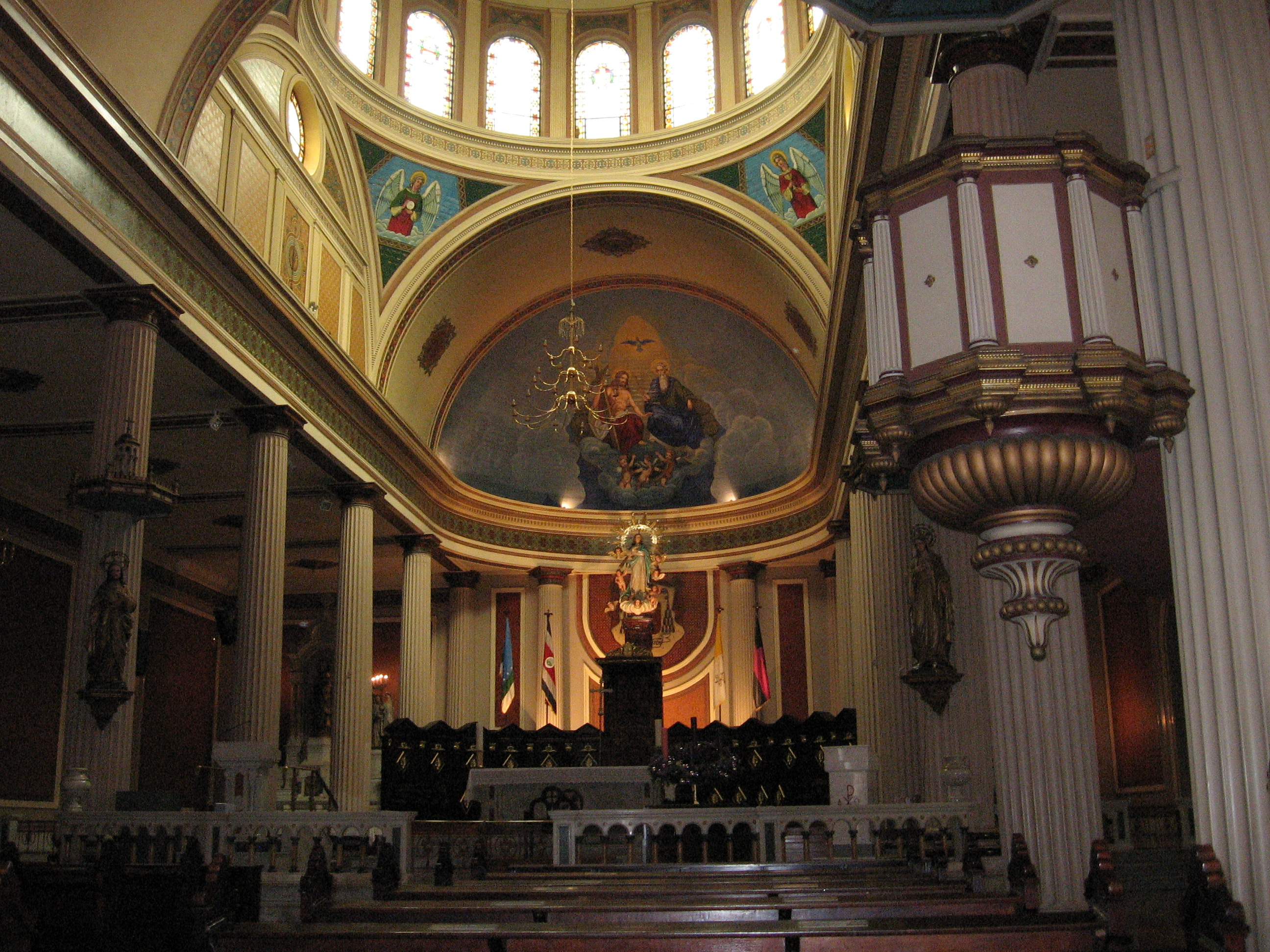 Church downtown San Jose, Costa Rica